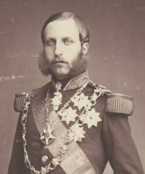 Prince Philippe, Count of Flanders and 3rd son of King Leopold I of Belgium